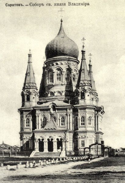 Cathedral of Prince Valdimir. Poltava square, Saratov.